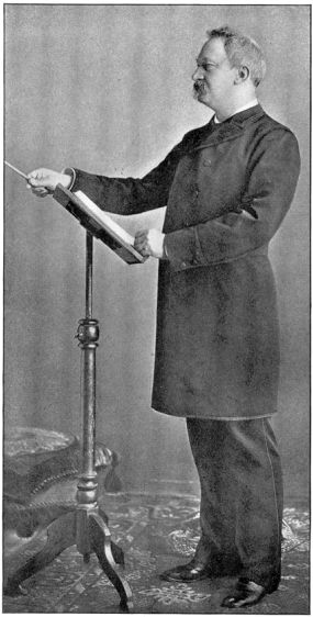 Theodore Thomas, What We Hear in Music, Anne S. Faulkner. Camden, NJ.: Victor Talking Machine Co., 1913.